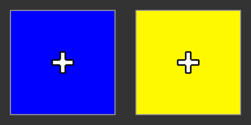 Impossible Colors, Blue and Yellow